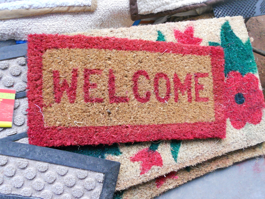 Coir mat